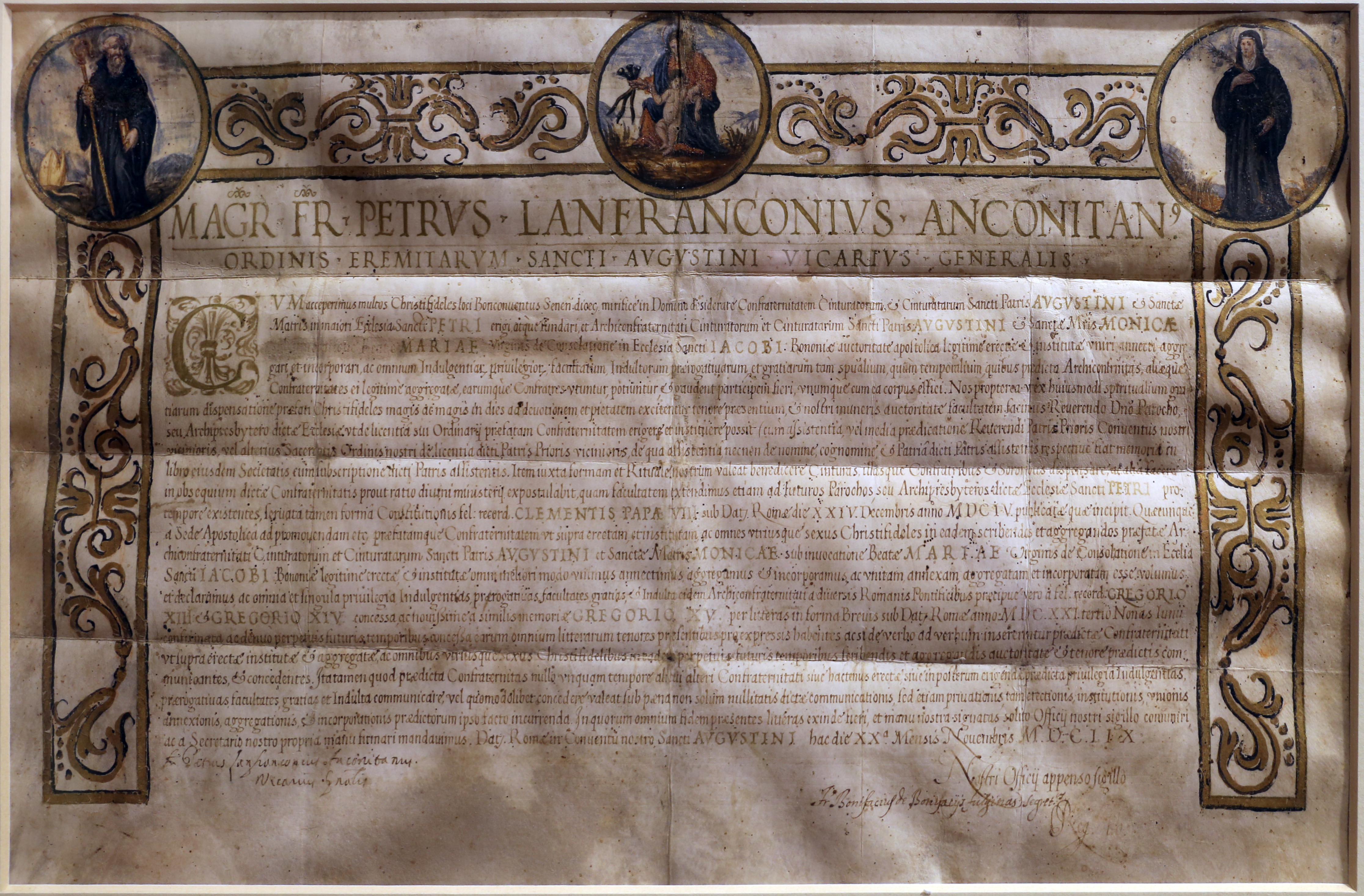 Collections of the Museo d'Arte Sacra della Val d'Arbia, Buonconvento